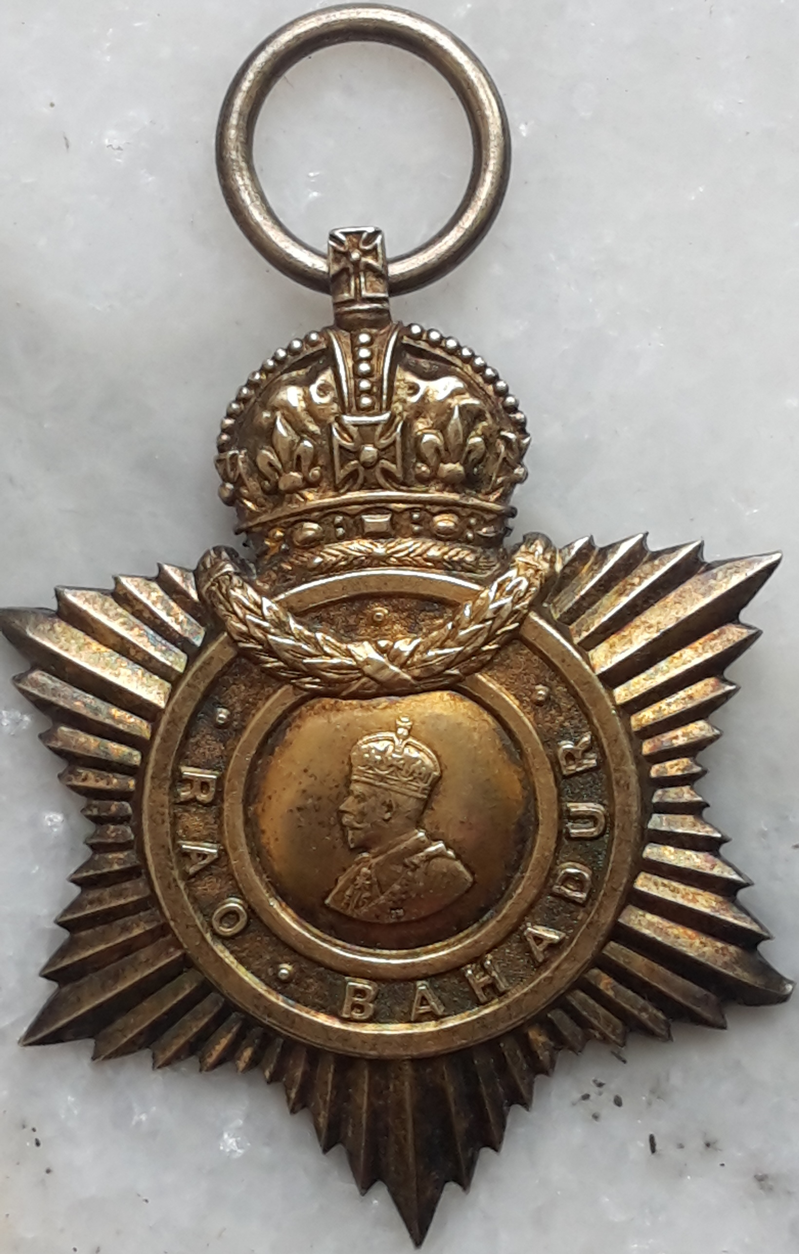 This medal was awarded to my maternal great grand father Shri Balwant Venkatrao Chinmulgund by the British Govt on 01 Jan 1936 for his exceptional service at Nashik,Maharashtra,India